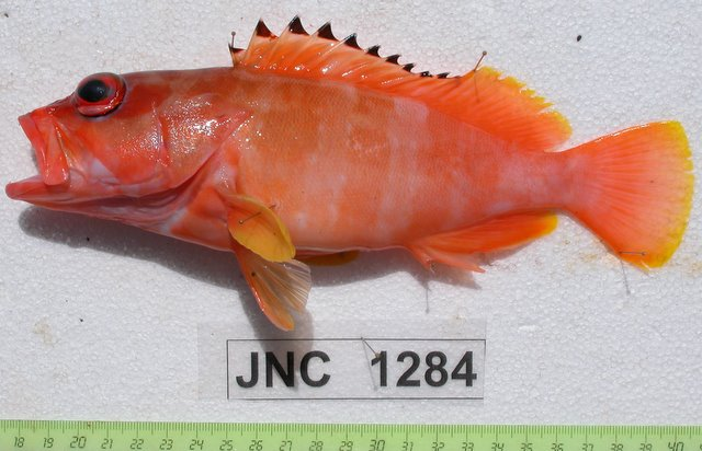 Epinephelus fasciatus. Locality: Passe de Dumbéa, off Nouméa, New Caledonia. Fork length 220 mm, Weight: 137 grams. Date 2004/09/22.